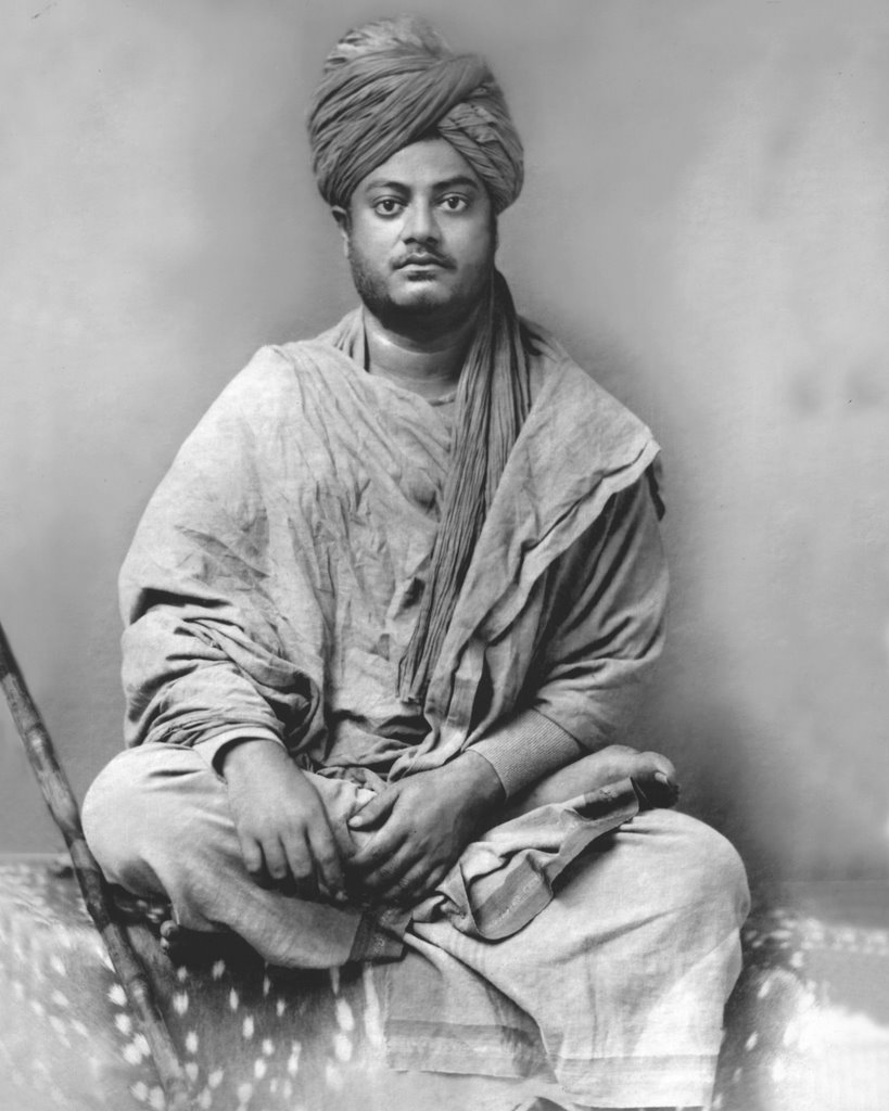 Photo of Swami Vivekananda at Jaipur ( between 1885 - 1895 )